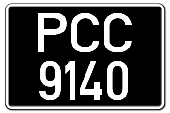 Typical Registration Plate